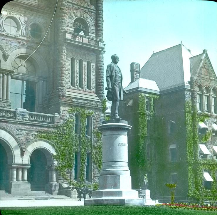 George Brown Monument, Queens Park, Toronto, Ontario, Canada. Hand-coloured glass lantern slide.